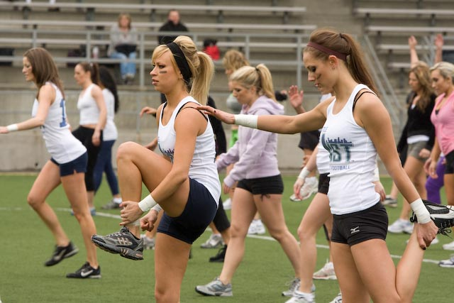 4/22/09 : Training of Seattle Mist Lingerie Football.